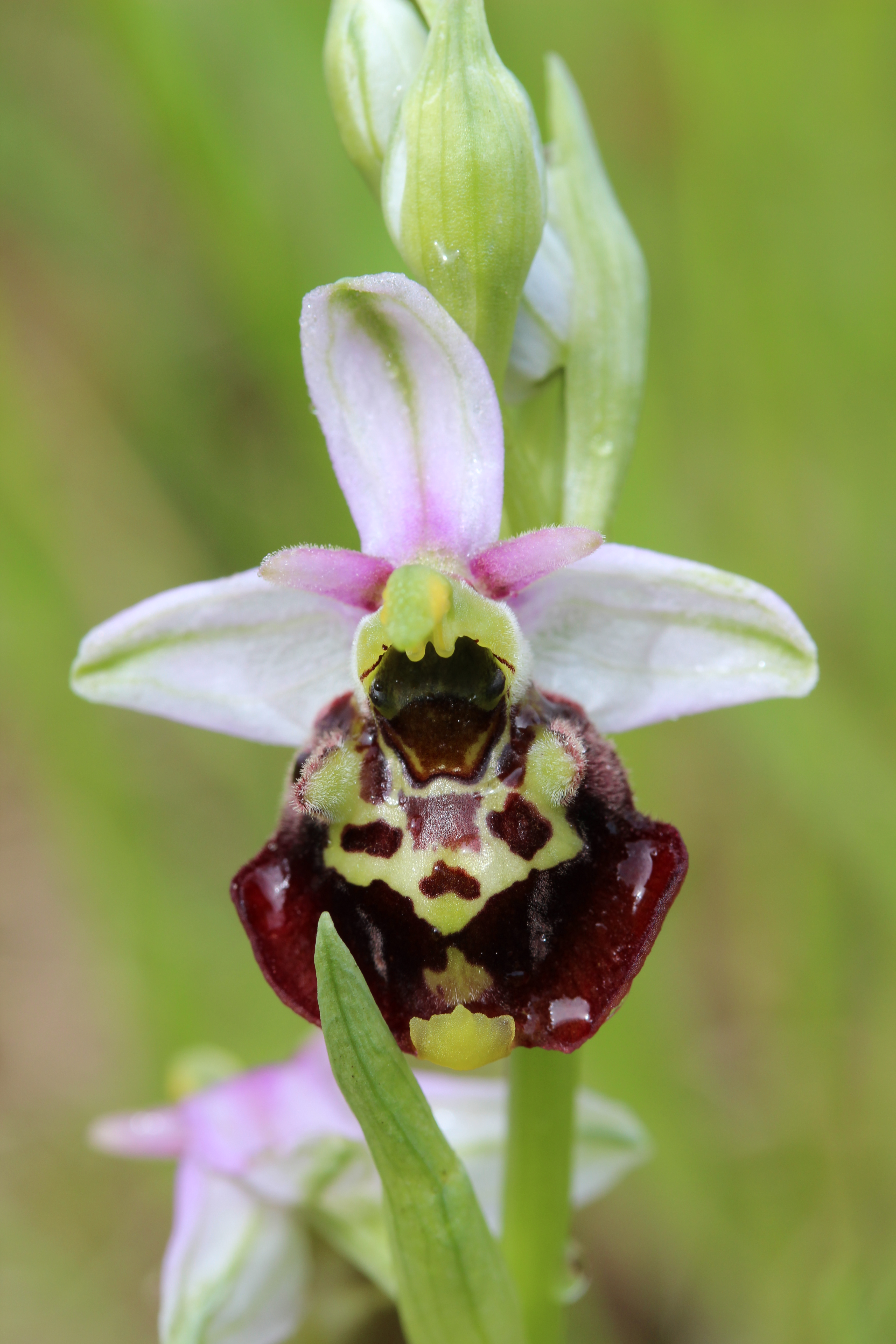 Late Spider orchid - Ophrys holoserica